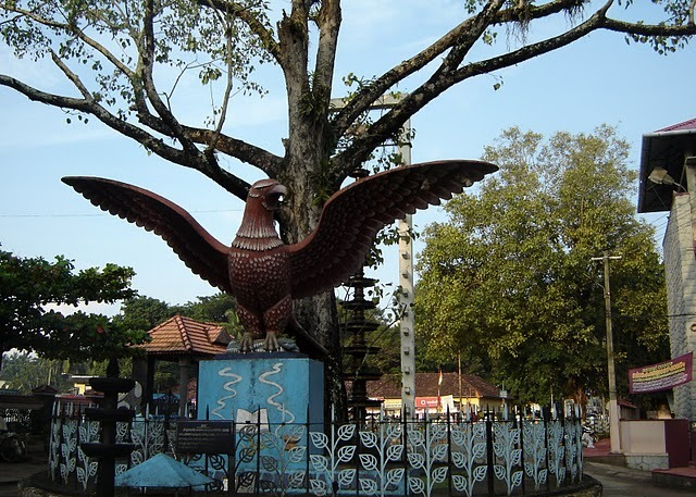 Guruvayur.